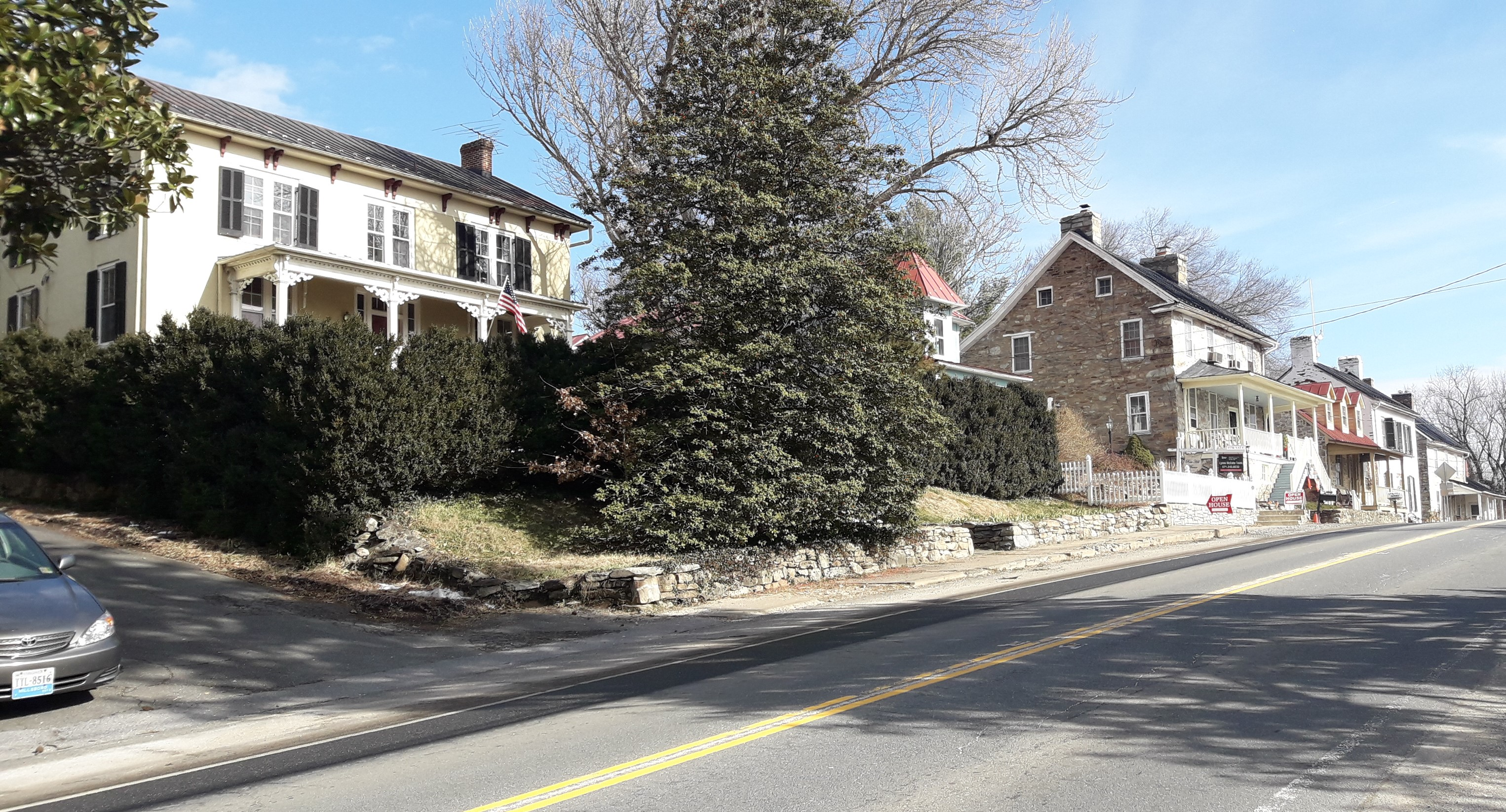 A Row of Nineteen century houses in Hillsboro